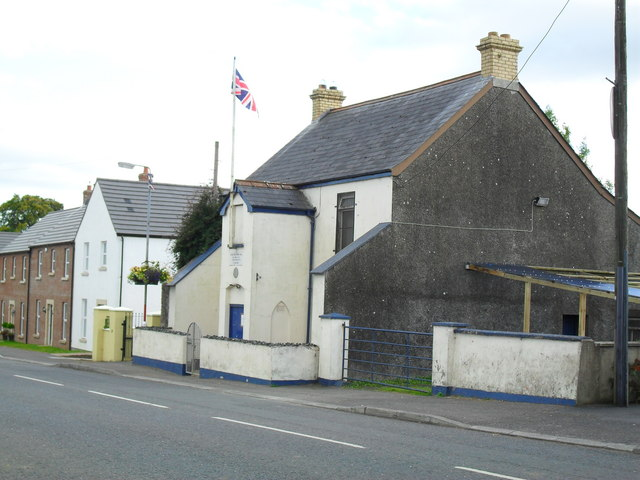 Stoneyford Orange Hall Erected in 1898 - one of the oldest building in this small linear settlement.